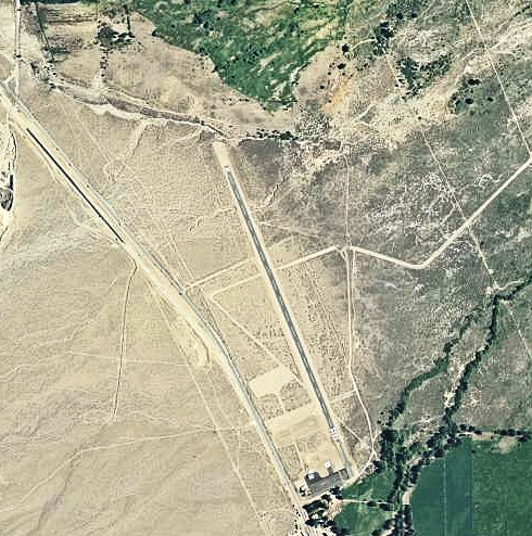 USGS digital orthophoto of Independence Airport in California